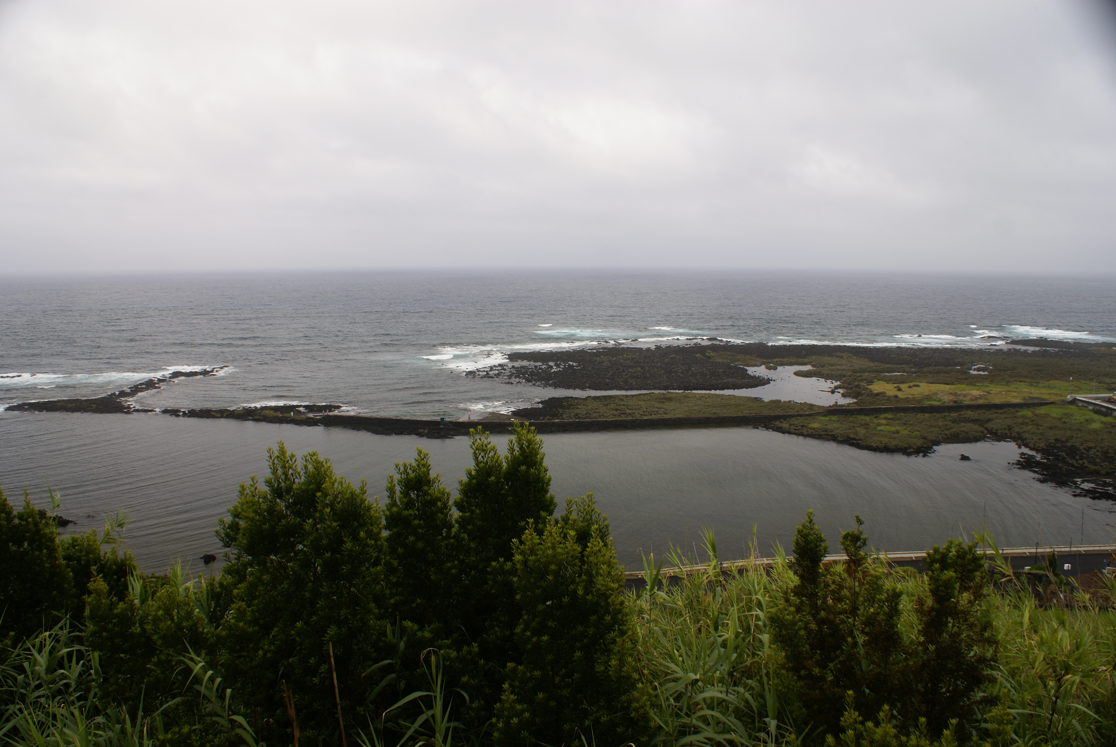 Zona de Protecção Especial para a Avifauna das Lajes do Pico, 5 Lajes do Pico, ilha do Pico, Açores, Portugal